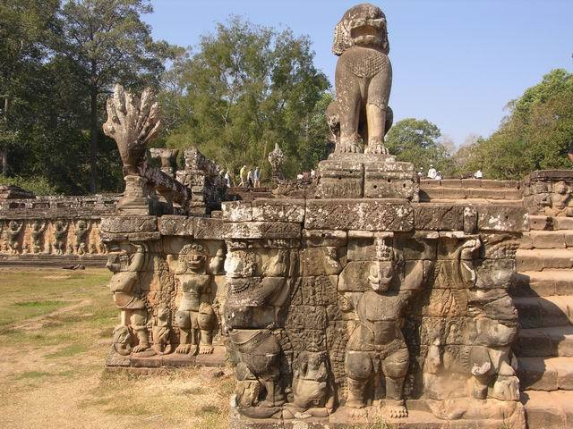 Angkor Thom (in Angkor)